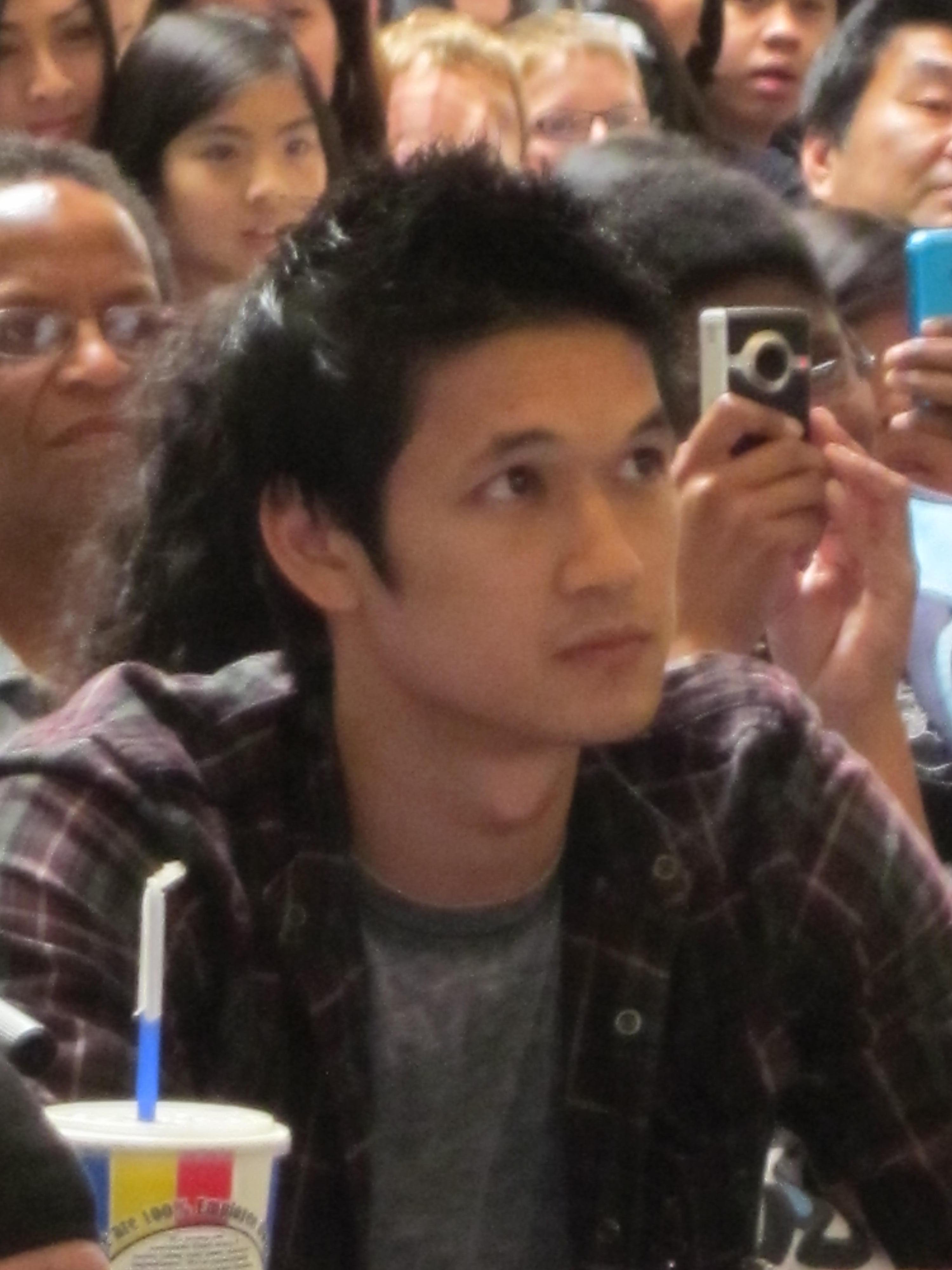 Harry Shum, Jr. at Serramonte Center to judge the Bay Area Glee Competition.